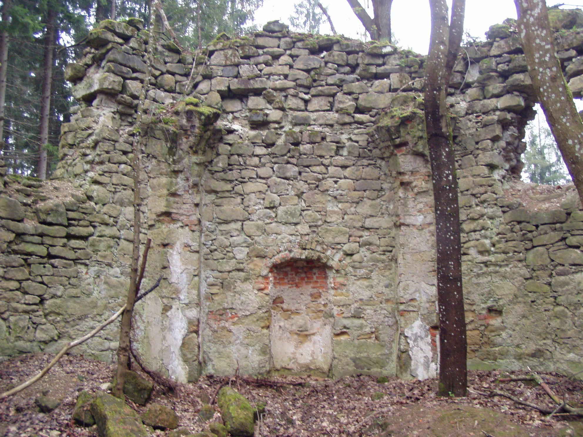 Zdoňov - ruins of church of Virgin Mary